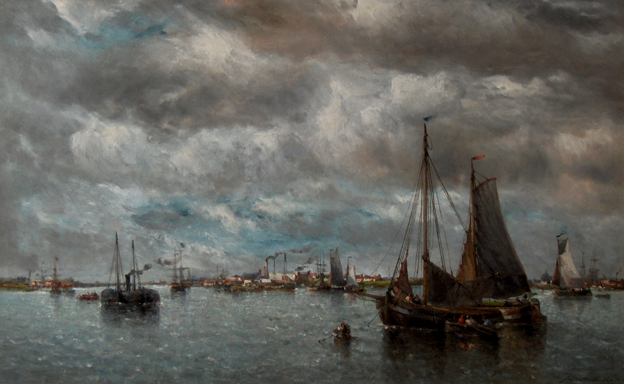 "Sailing boats in the estuary of the River Scheldt" by François Musin (1820-1888); private collection.